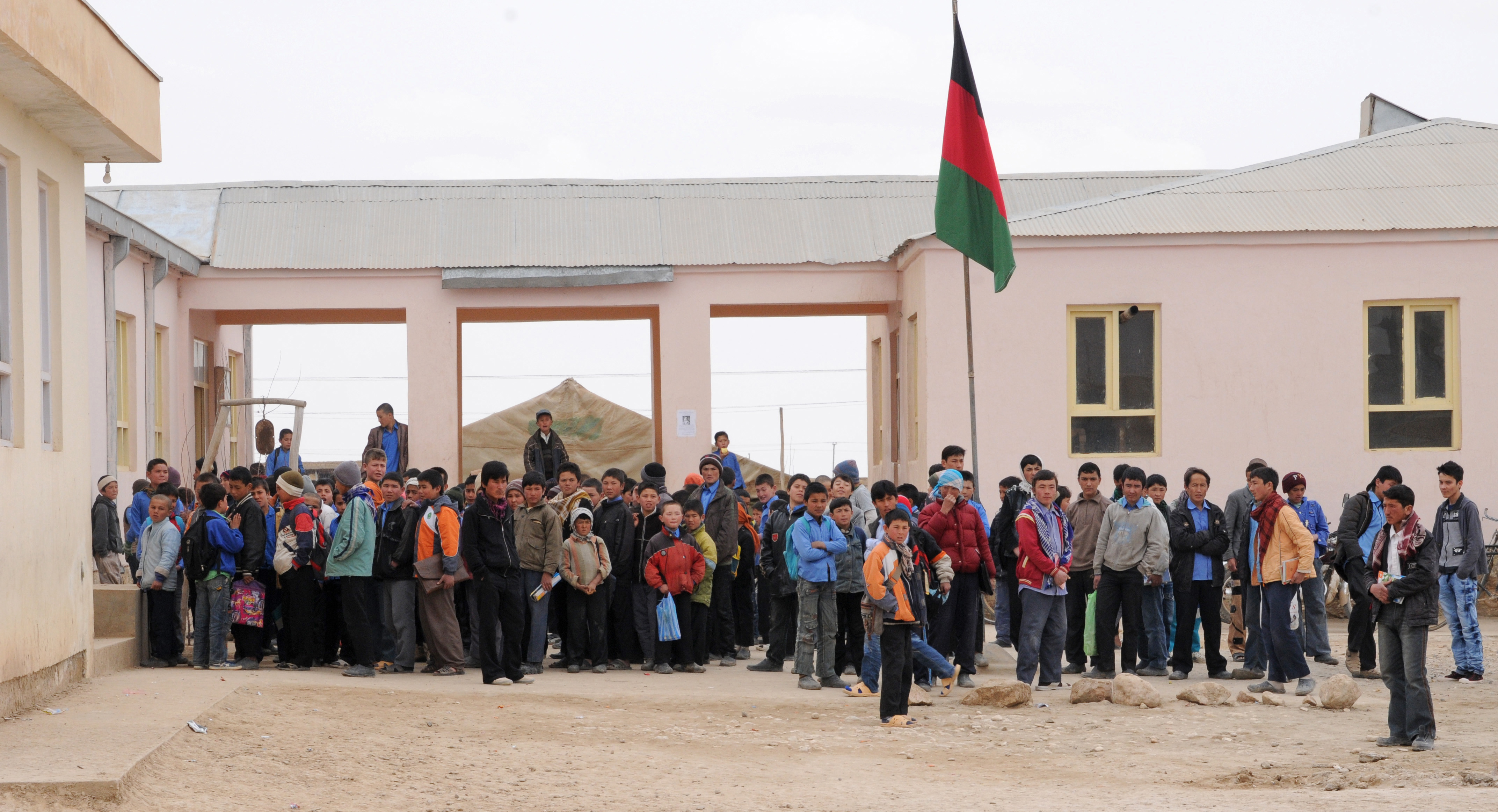 Young Afghan boys stand outside of the Aliabad School near Mazar-e-Sharif, Afghanistan, March 10, 2012. Their new school, a project started by the 1st Brigade, 10th Mountain Division and continued by the 170th and 37th Infantry Brigade Combat Teams, is being built next to the current school and will accommodate the current volume of students with additional room for the town's growing population. (37th IBCT photo by Sgt. Kimberly Lamb) (Released)